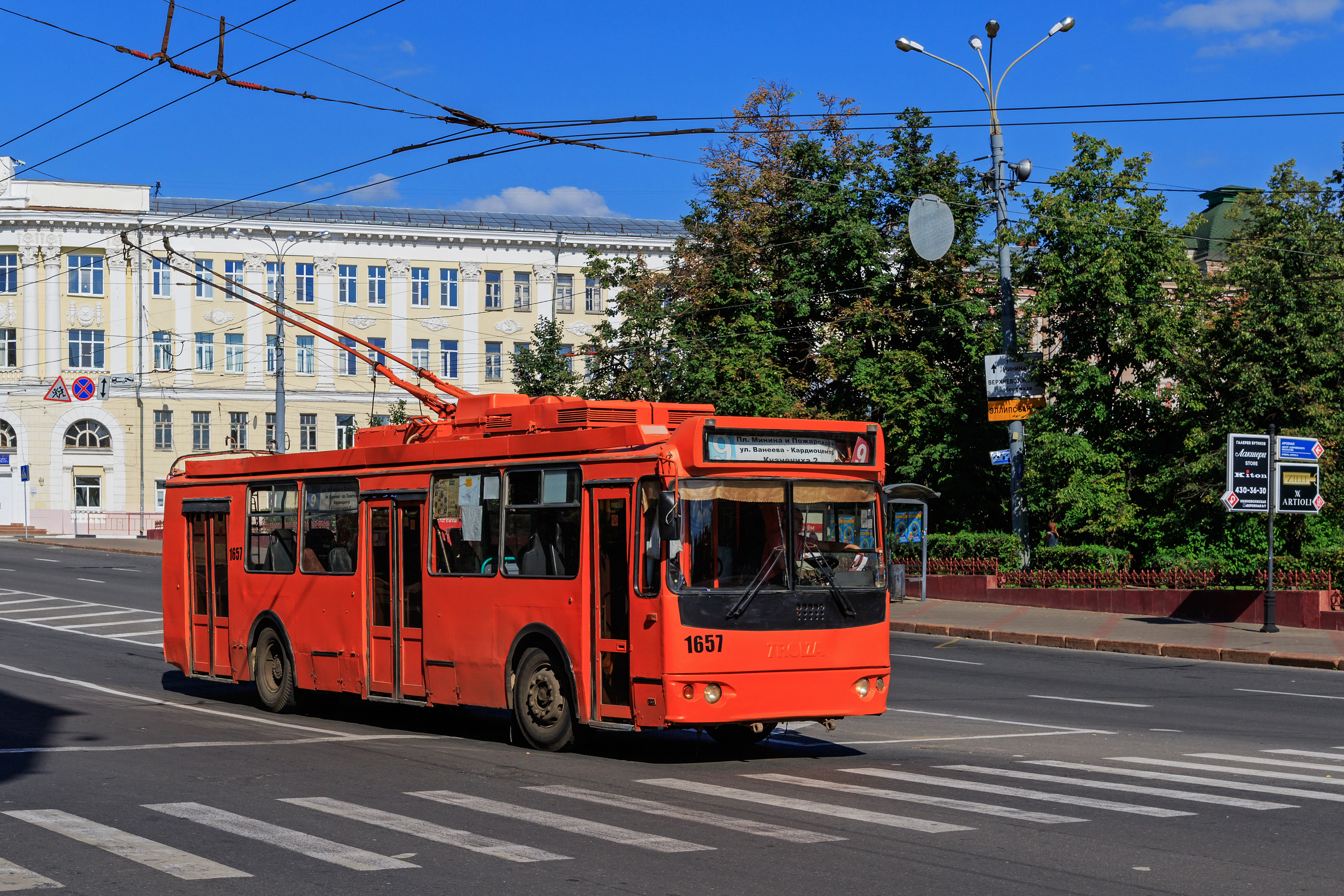 ZiU-682G016.02 trolley at Minin and Pozharsky Square. Nizhny Novgorod, Russia.